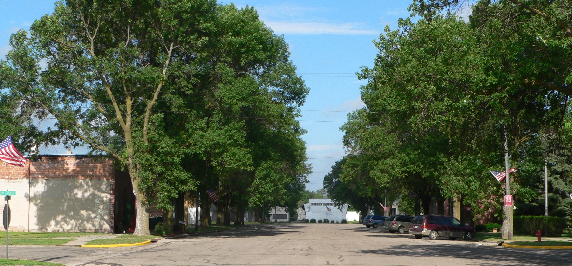 Downtown Meadow Grove, Nebraska: Main Avenue, looking west from east of 2nd Street.